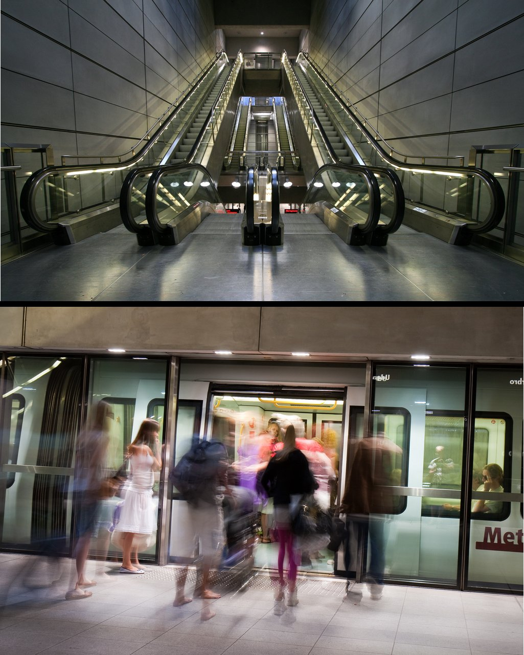 Pictures of the Copenhagen Metro, Copenhagen Metro+All those blurred people in the metro Copenhagen